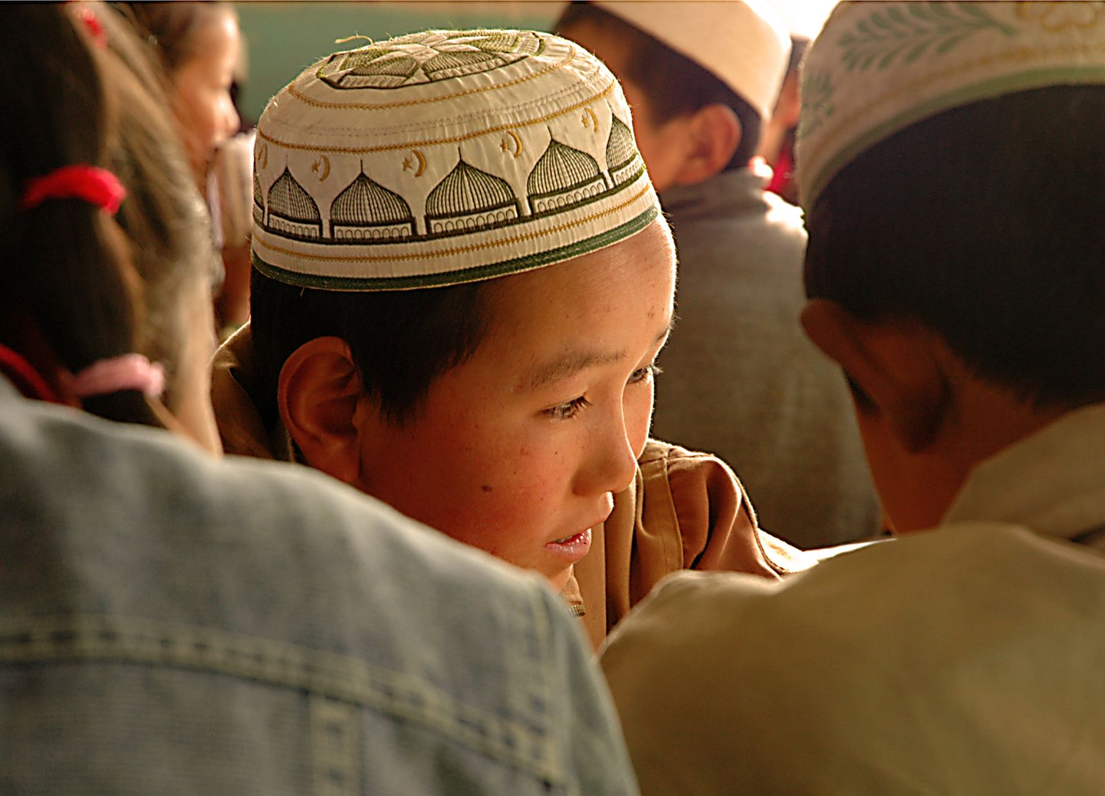 "Dongxiang minority student discussing a math problem."